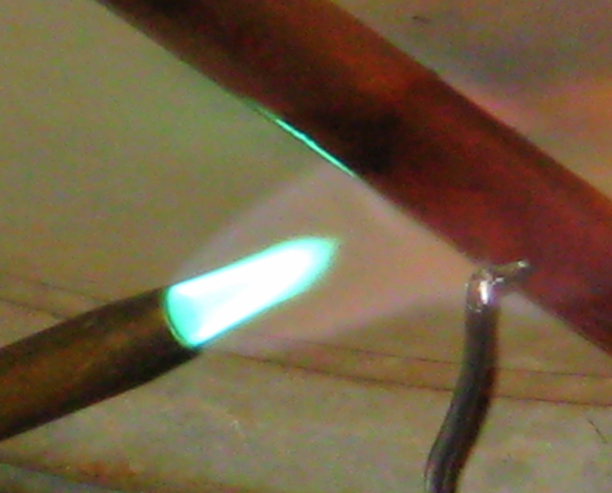 acetylene torch